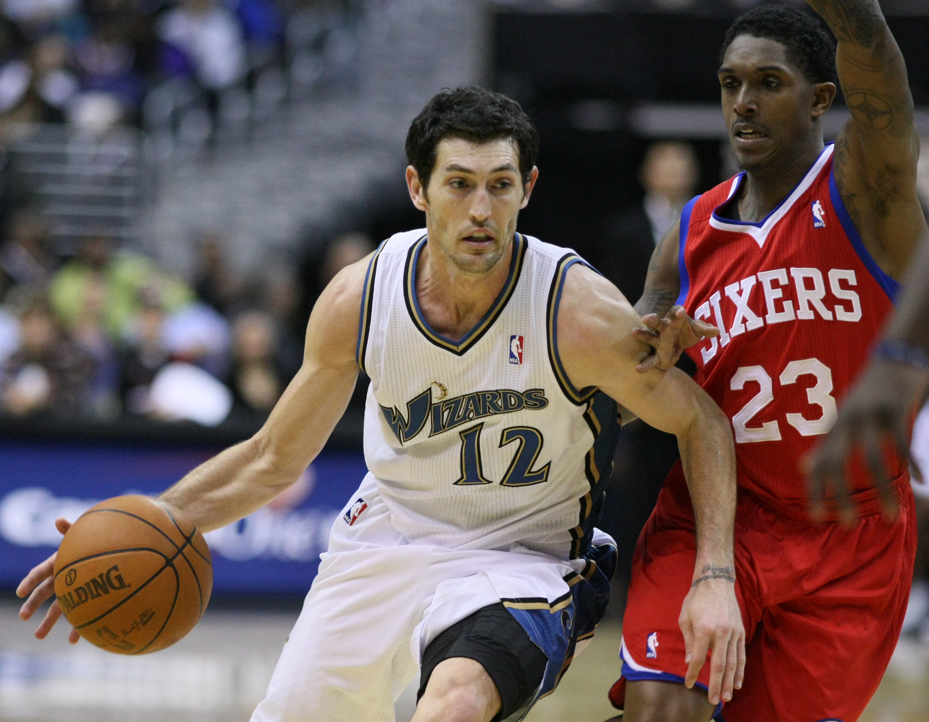 Washington Wizards v/s Philadelphia 76ers November 23, 2010